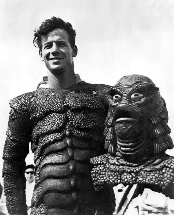 Persistent URL: Local call number: rc13388 Title: Ricou Browning in his movie costume at Wakulla Springs, Florida He played the "Gill Man" (uncredited) in the underwater scenes of Creature from the Black Lagoon (1954), Revenge of the Creature (1955), and The Creature Walks Among Us (1956). Date: ca 1953 Physical descrip: 1 photoprint - b&w - 10 x 8 in. Series Title: Reference Collection Repository: State Library and Archives of Florida, 500 S. Bronough St., Tallahassee, FL 32399-0250 USA. Contact: 850.245.6700.